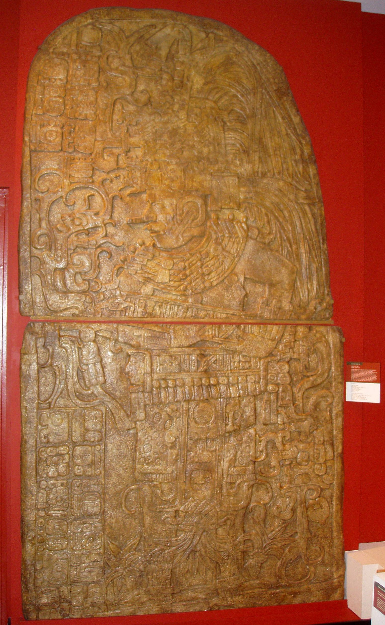 This is a photograph of Harvard University's plaster cast of Seibal, Stela 10, a Mayan artifact from Seibal, Guatemala (AD 849). This photograph is from the Harvard Museum of Natural History / Peabody Museum. Although no copyright has been asserted for the subject matter or this image, the museum's photography rule is as follows: "No commercial photography or video cameras permitted in the museum without written permission." [Museum pamphlet, May 2007.]